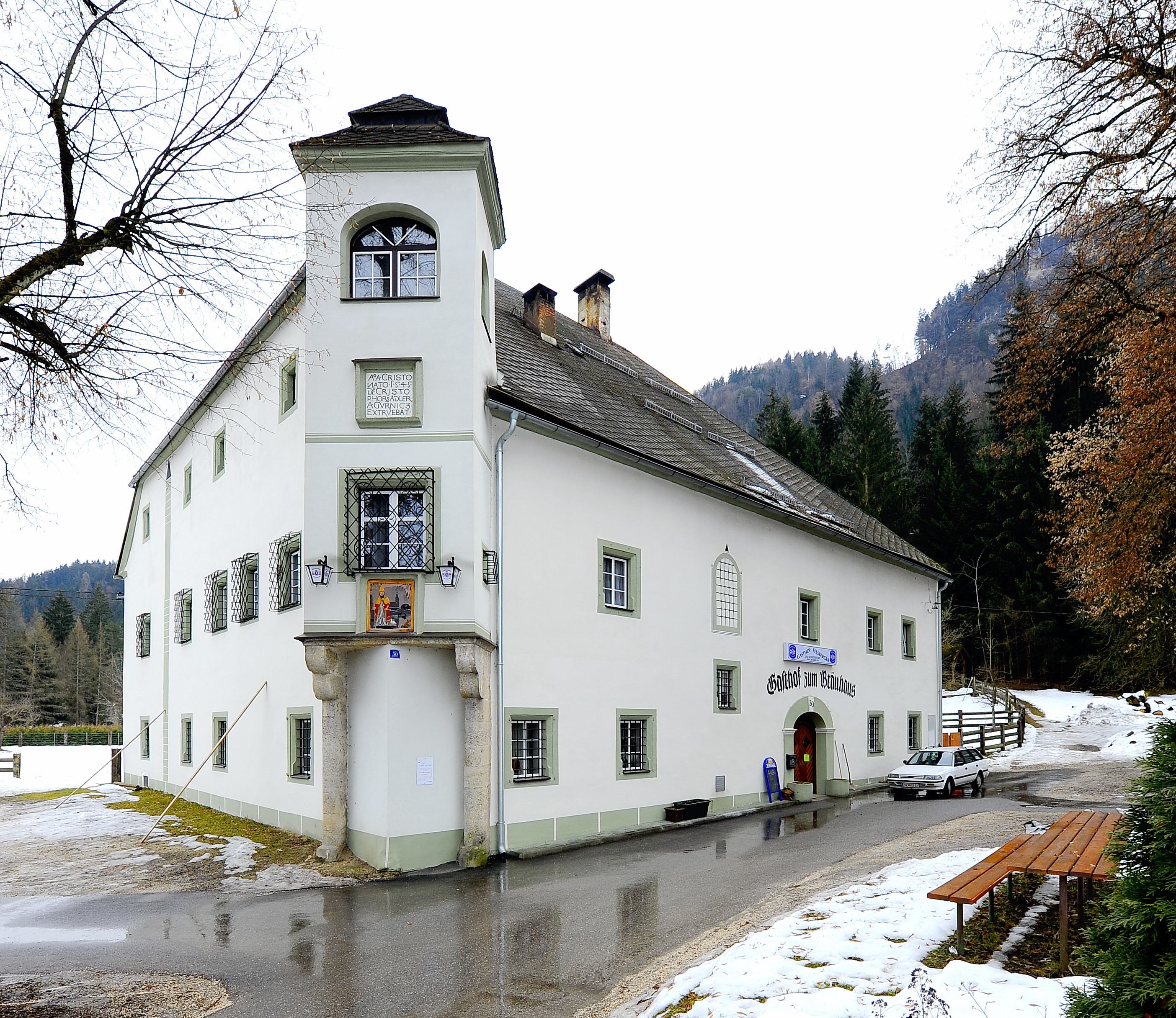 Mansion and old brewhouse on the Kirchenstrasse #30 at Gurnitz, market town Ebenthal in Kärnten, district Klagenfurt Land, Carinthia, Austria, EU